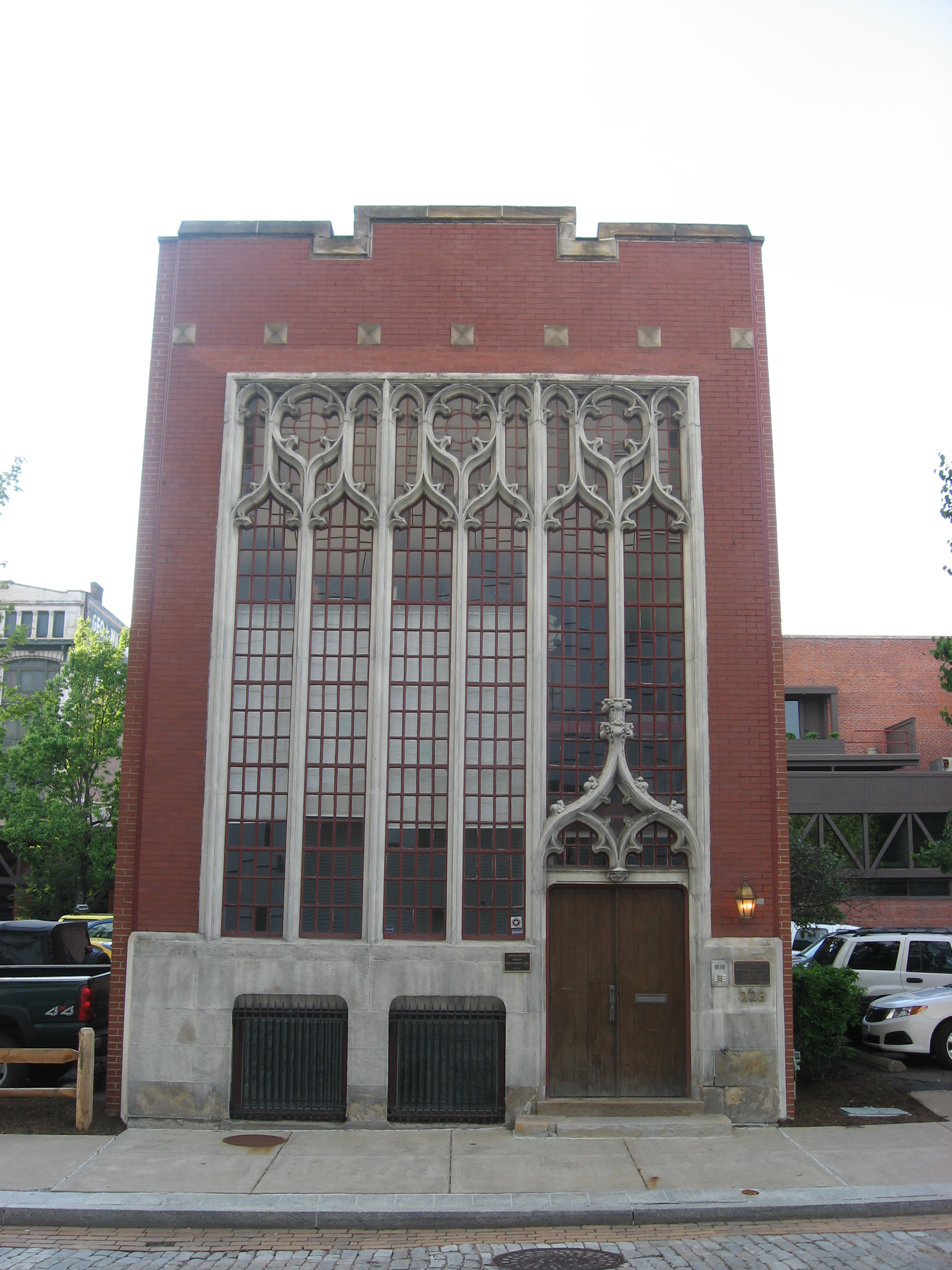 Front of the Frederick J. Osterling Office and Studio, located at 228 Isabella Street in the North Shore neighborhood of Pittsburgh, Pennsylvania, United States. Built in 1917 for renowned architect Frederick J. Osterling, it is listed on the National Register of Historic Places.